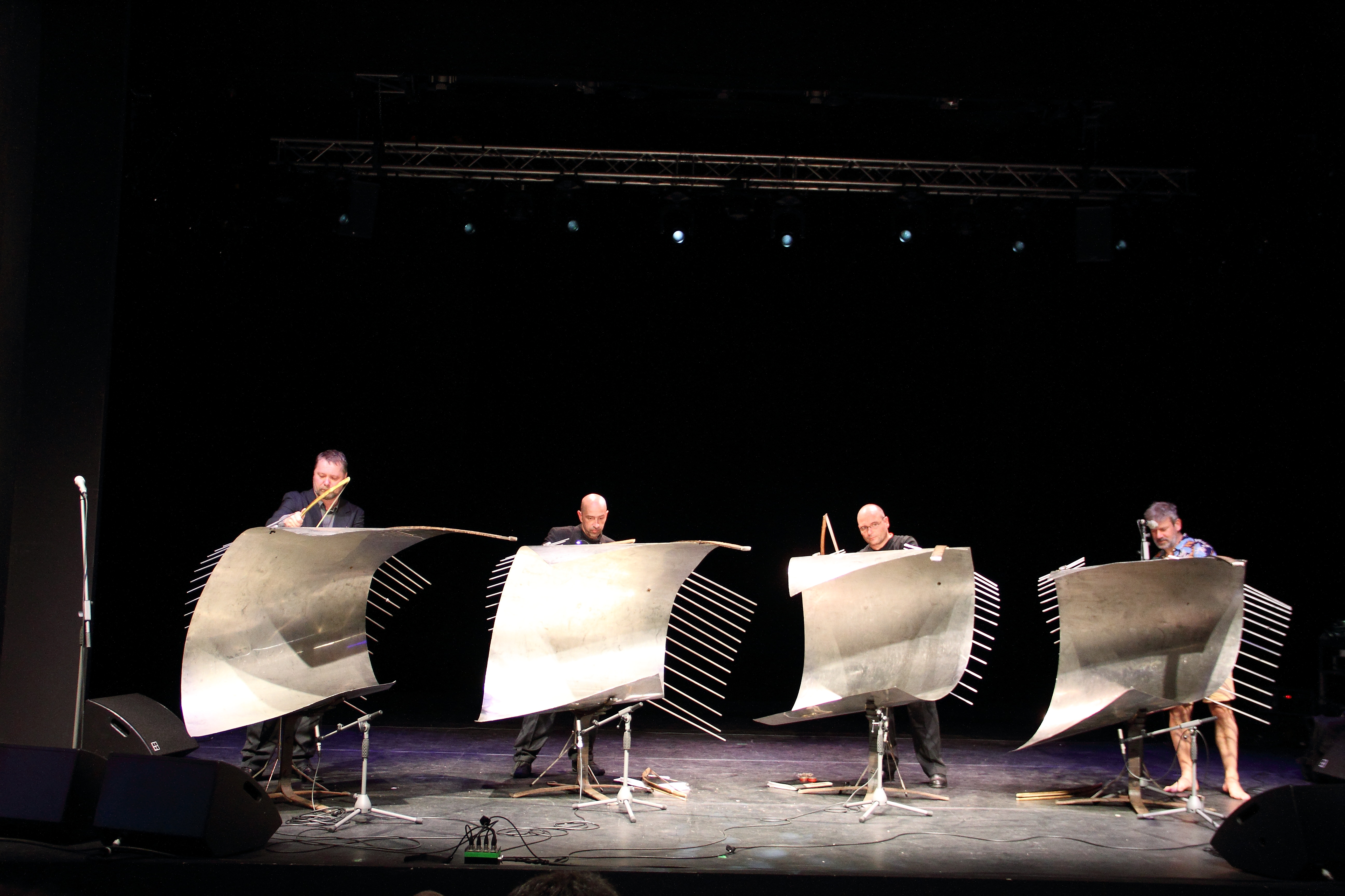 The Stahlquartett is a musical ensemble for Neue Musik, playing cellos made of steel. Here´s the concert at Theater im Stadthaus at Rudolstadt-Festival 2018. L.t.r.: Michael Antoni, Peter Andreas, Alexander Fülle & Jan Heinke.